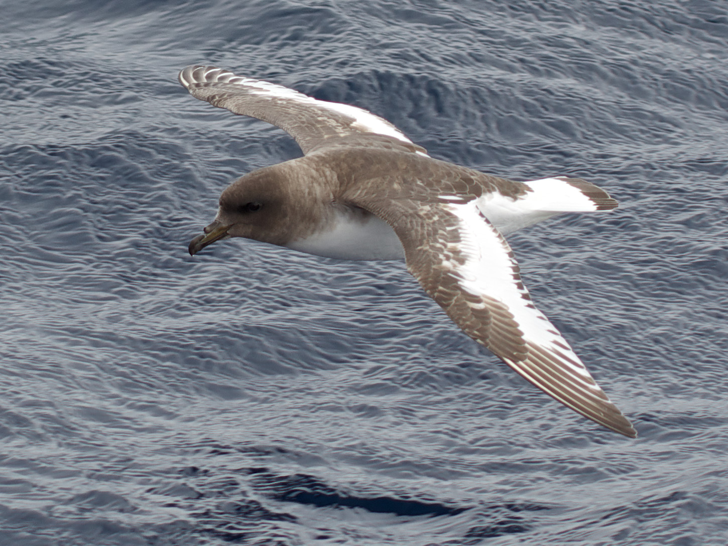 Antarctic Petrel flying